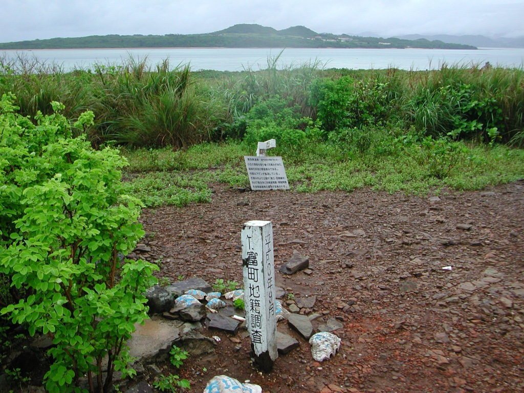 The highest point of Kayama-jima